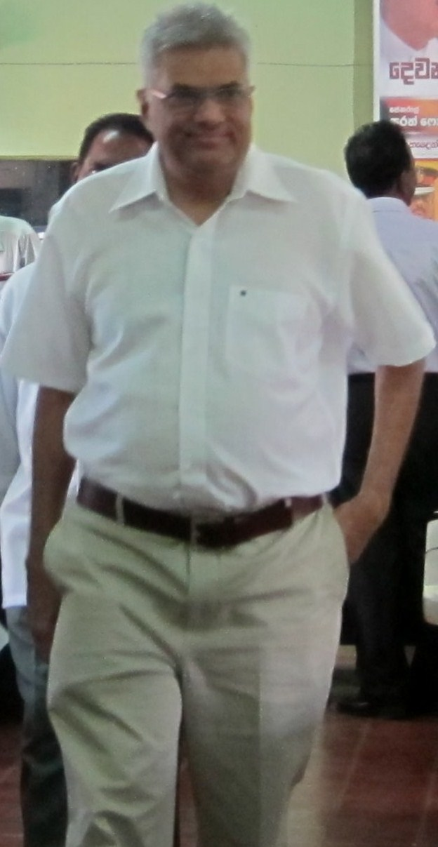 Ranil Wickremasinghe, leader of the United National Party, at a UNP office Date